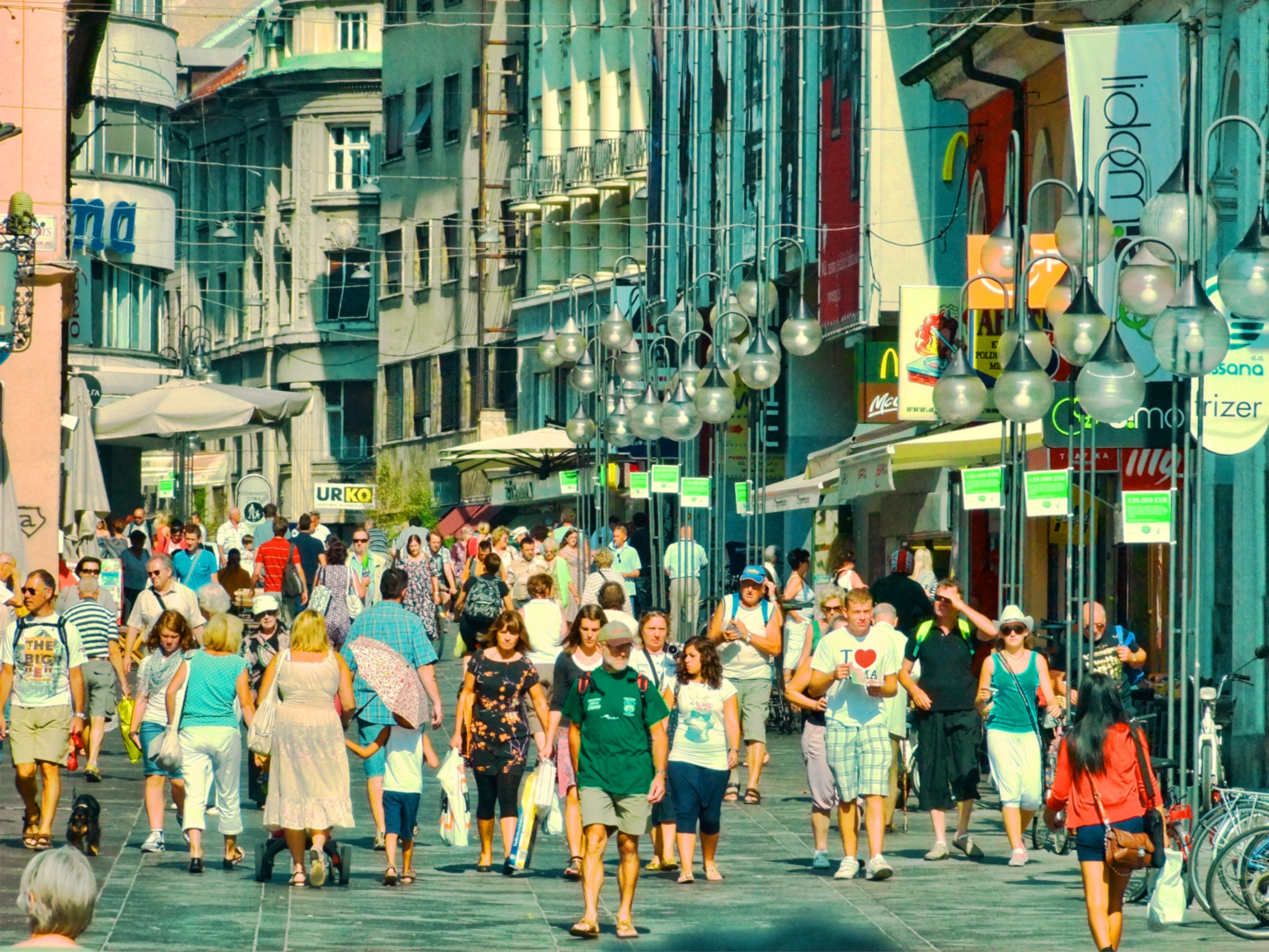 Digital fineart photography of Čopova Street in Ljubljana, Slovenia, Europe